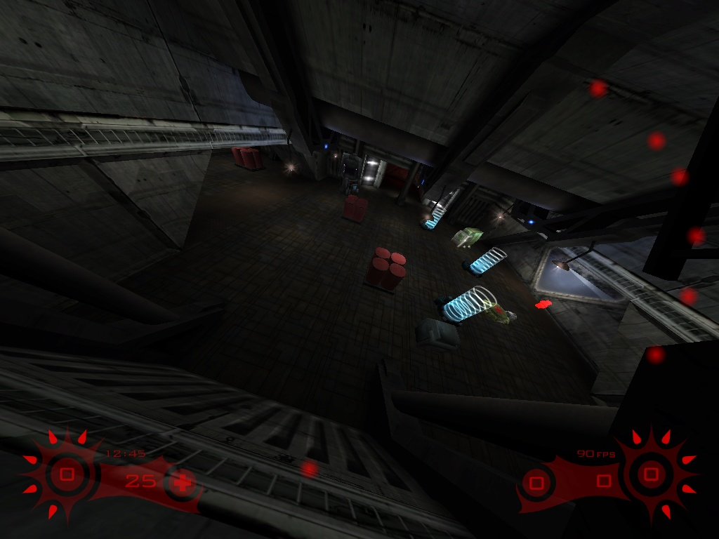 Sreenshot of video game Tremulous